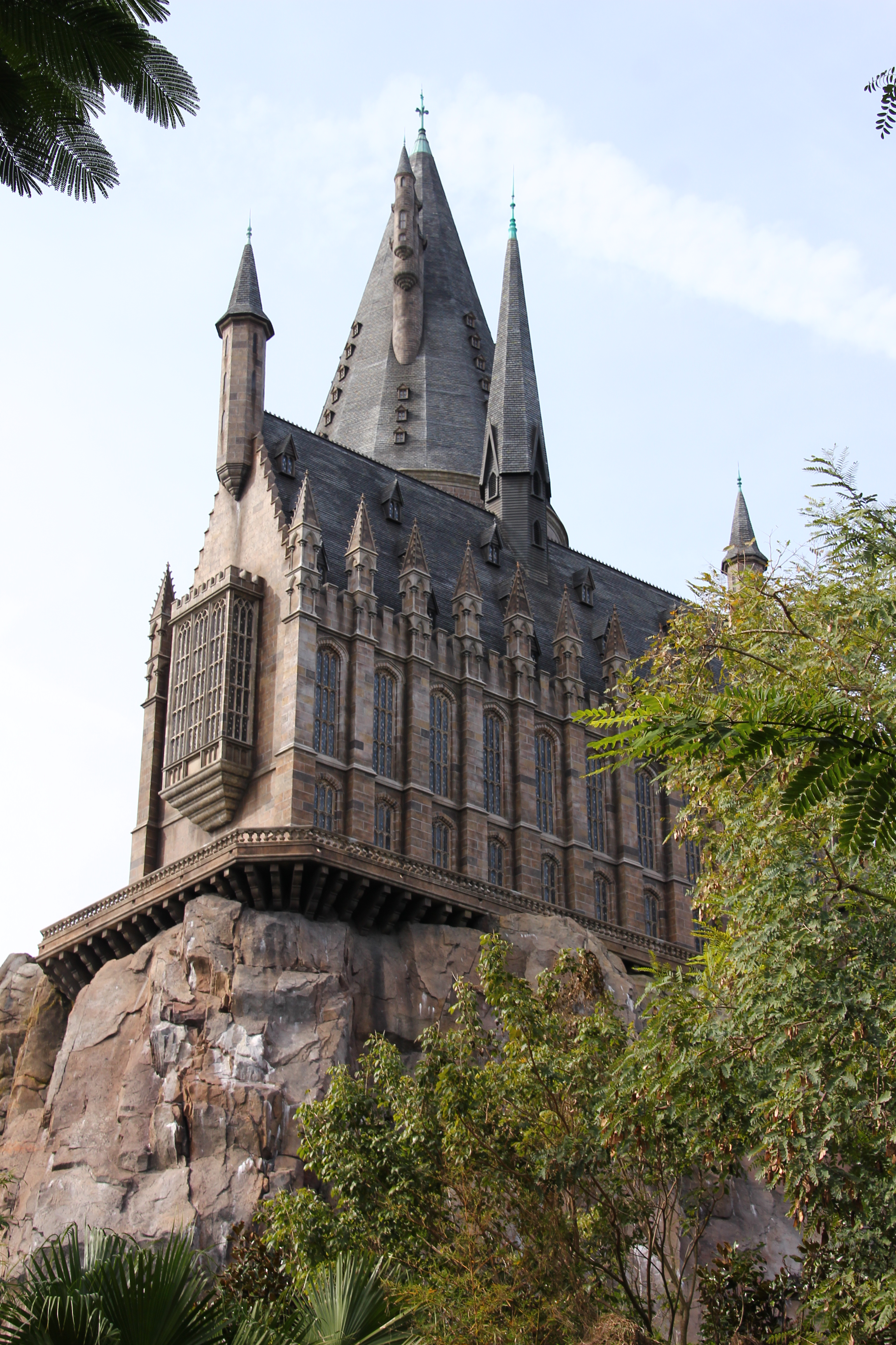 Hogwarts Castle at the Harry Potter and the Forbidden Journey amusement ride in the Wizarding World of Harry Potter at the Islands of Adventure amusement theme park at Universal Orlando in Orlando, Florida.